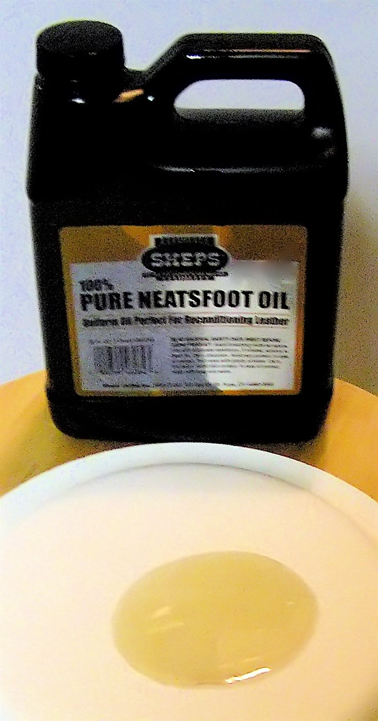 A can of neatsfoot oil and a small dollop of the product poured out on a paper plate. I can't believe I just took a photo of neatsfoot oil for wiki